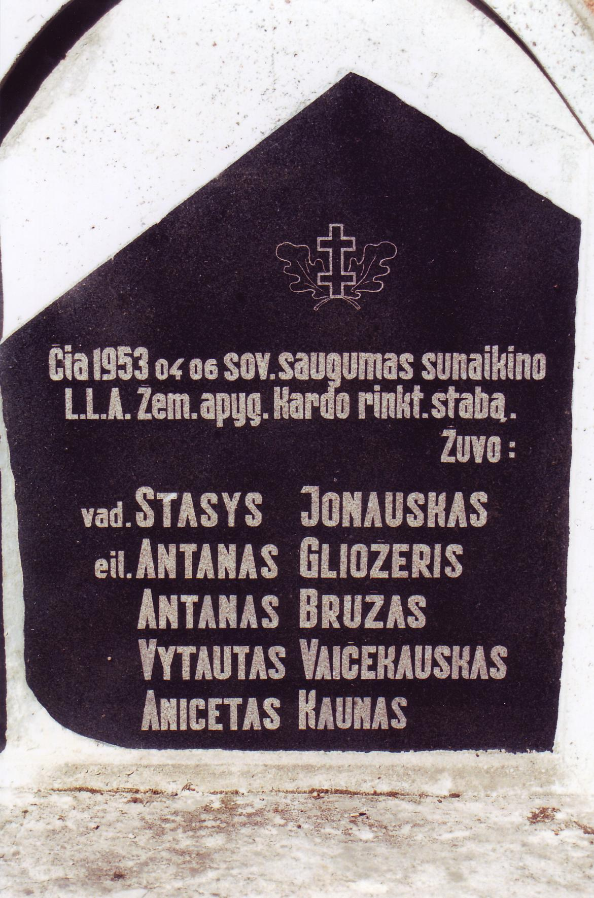 Kūlupėnai monument, Kretinga district, LithuaniaLietuvių: Kūlupėnų paminklas partizanams, Kretingos rajonas, Lietuva